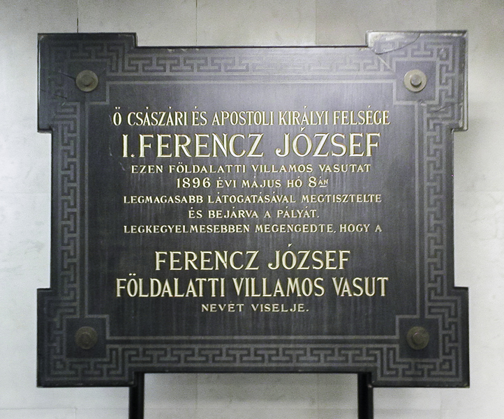 Opening plaque of the Budapest Földalatti in the metro museum at Deák tér